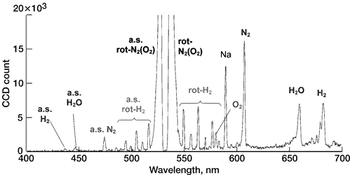 SRS spectrum of a H2-air flame at a rig pressure of 20 atm and an equivalence ratio of 1.4. The spectrum was averaged over 250 laser shots and collected at a low spectral resolution of 40 cm-1. The entire visible spectrum from 400 to 700 nm can be captured in a single spectrum, enabling the simultaneous quantitative determination of species temperature and concentration (a.s., anti-Stokes; rot, rotational).